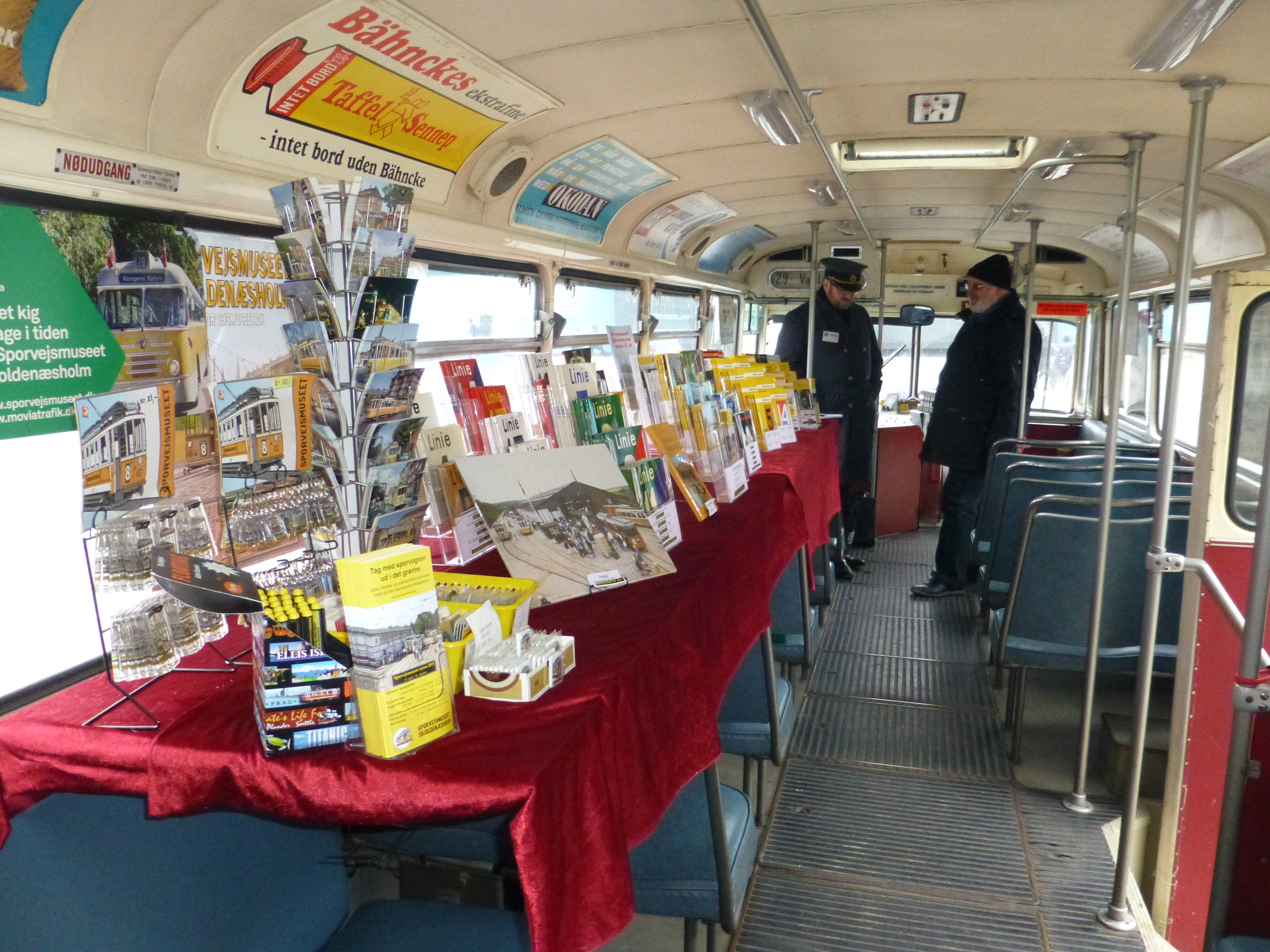 50 years anniversary exhibition of the Danish tramway society, Sporvejshistorisk Selskab, in the town hall of Copenhagen. Old bus from Copenhagen KS 772 as eyecatcher and temporary shop on Rådhuspladsen (the town hall square).